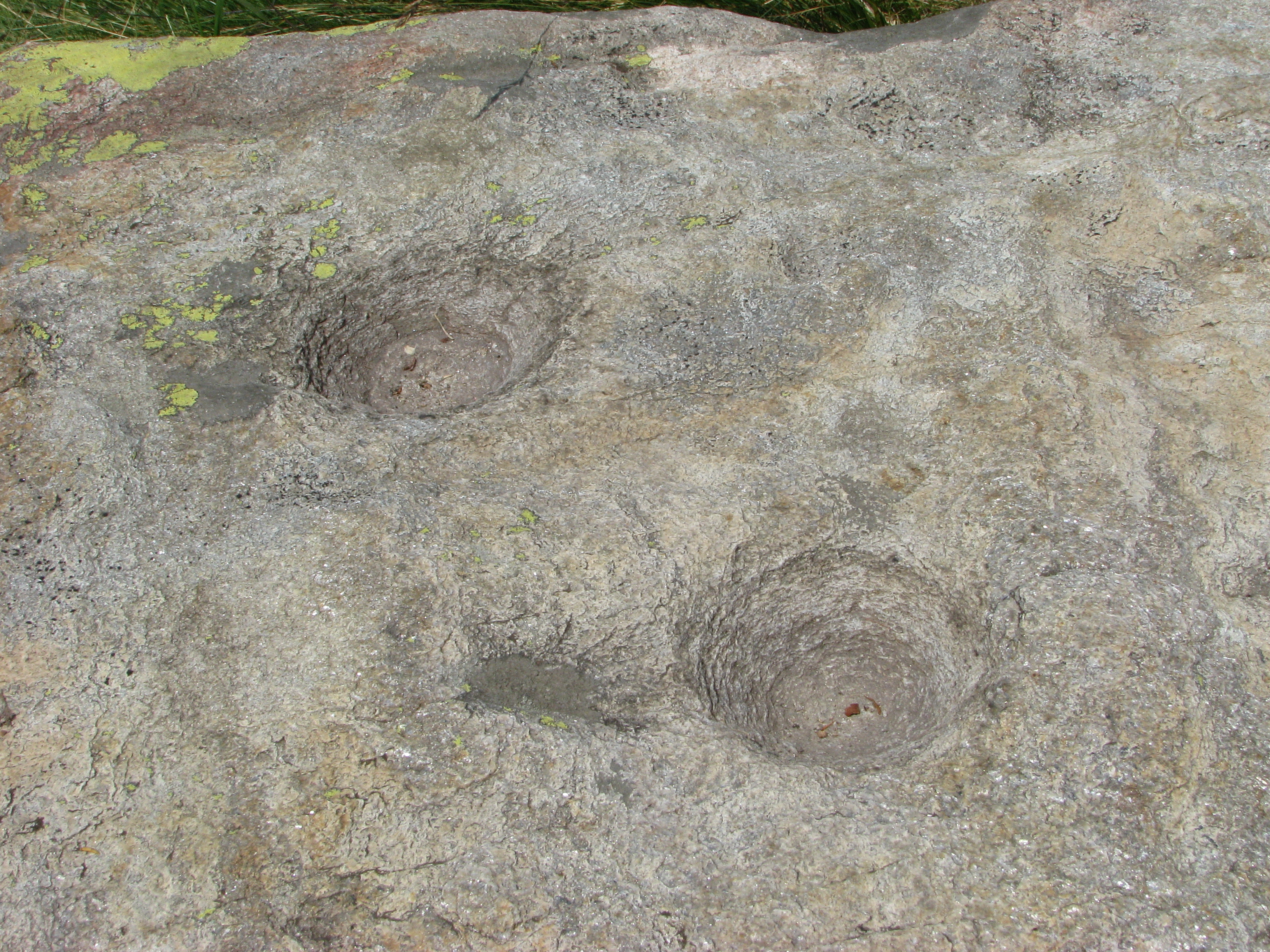 Cup-marks engraved in the stone. It is part of a group of 7 cup-marks that seems to be a representation of Pleiadi constellatio. The stone is near Lillianes (AO), Italy.